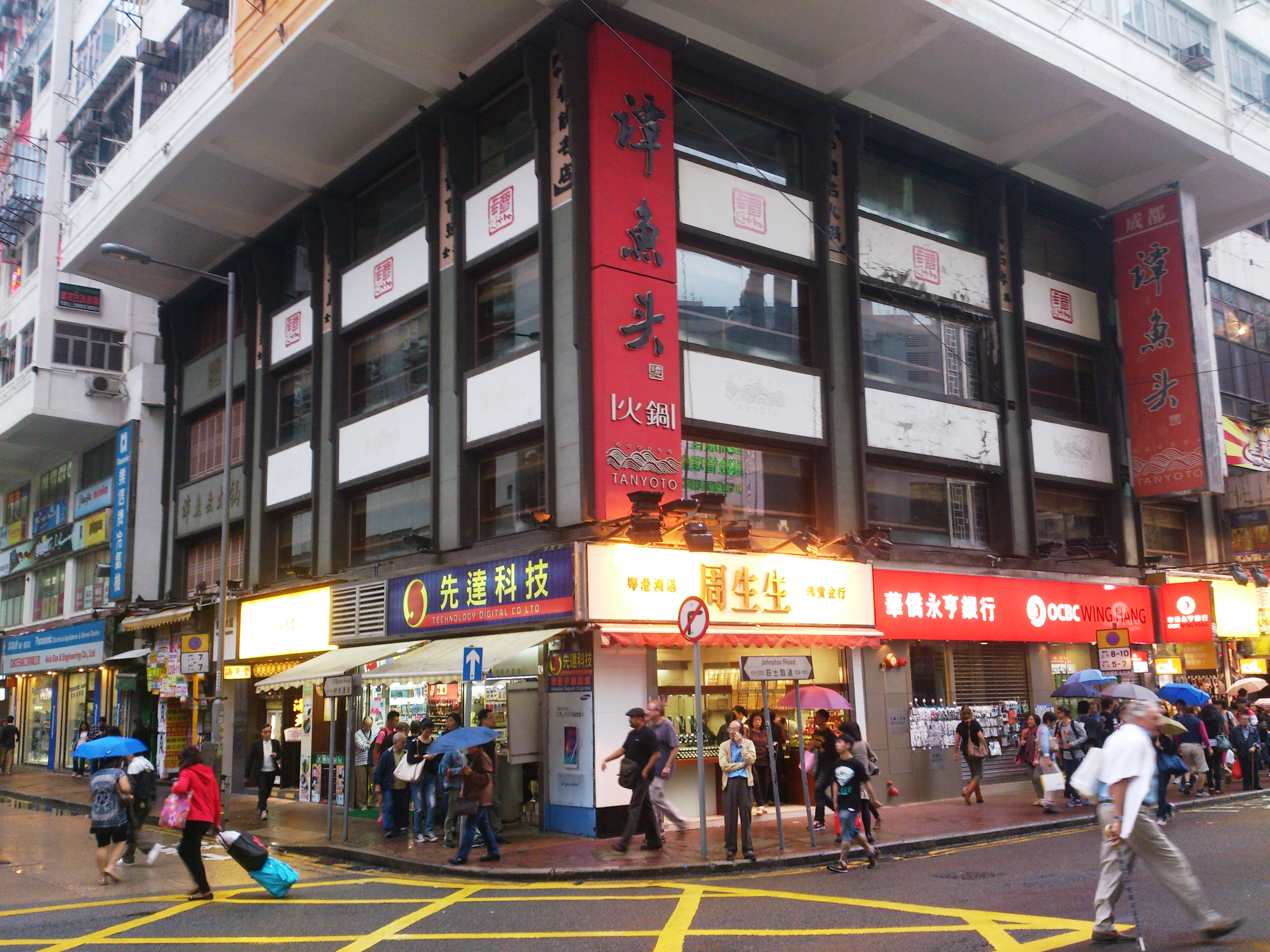 Former Tanyoto Wan Chai Branch